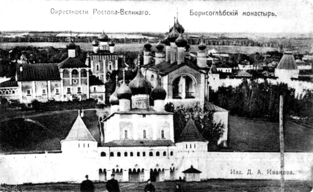 Monastery of St.Boris and St.Gleb near Rostov th Great. Pre-1917 postcard